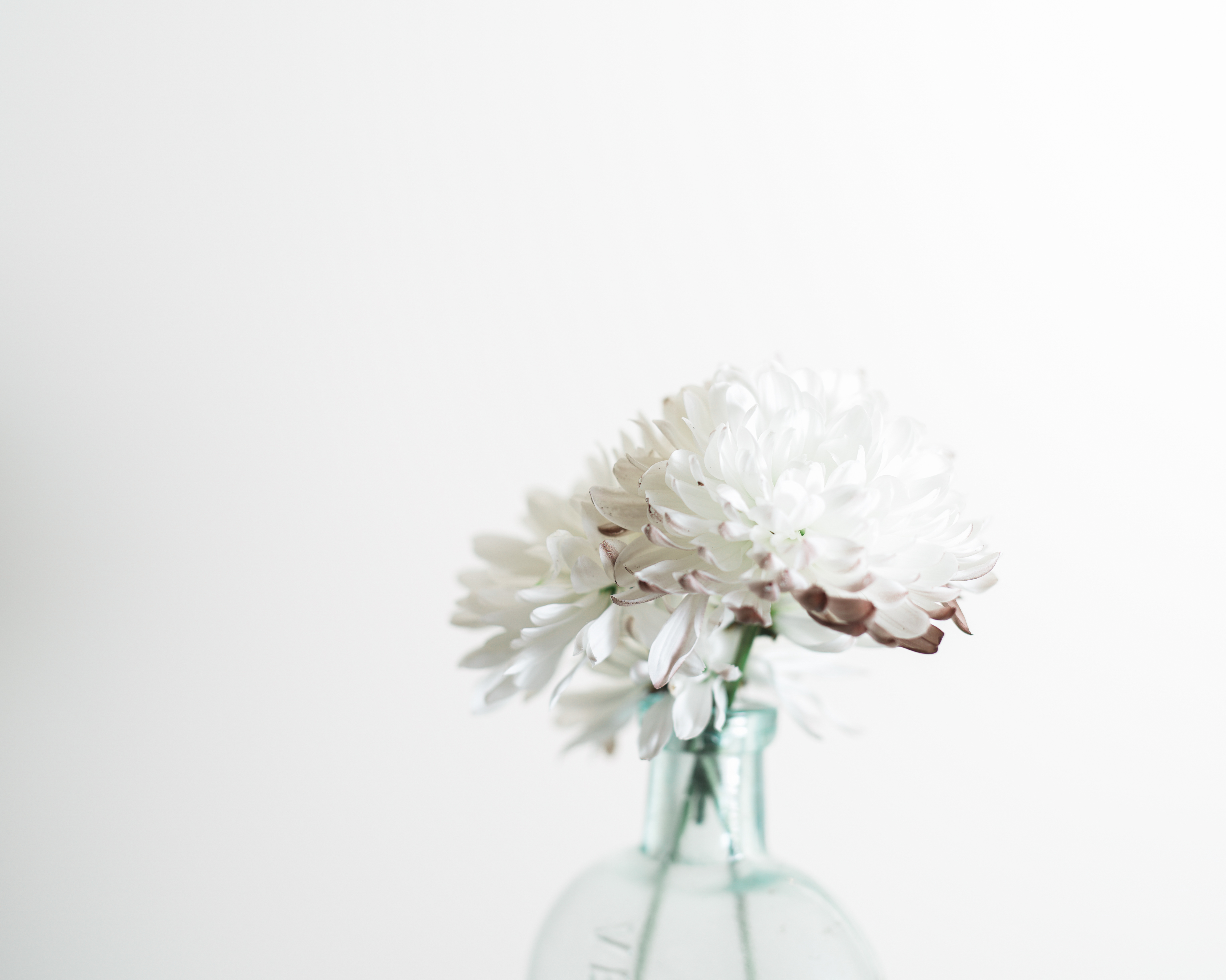 Chrysanthemums in an antique bottle. Floral design is commonly an element of editorial photography.